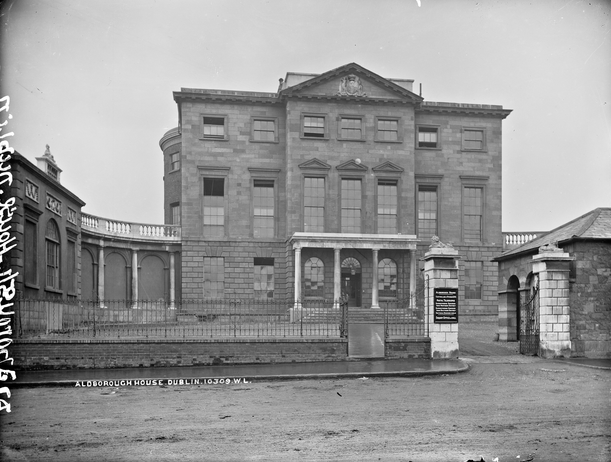 I see that Aldborough House is associated with the GPO and all things posts and telegraph in this photo. Doubtless though that was not the original purpose for this beautiful Georgian building. For some unknown reason the following comes to mind "The Minister for gate posts and telegraph poles"? Thanks to today's contributors, including [/photos/20727502@N00/ guliolopez], [/photos/beachcomberaustralia/ beachcomberaustralia], [/photos/gnmcauley/ Niall McAuley], [/photos/lizinitaly/ Wendy:] and [/photos/turgidson/ turgidson] we learned a lot about Aldborough House. The related Wikipedia article has some detail, but in short the house was built by the Earl of Aldborough in the 1790s. He died soon afterwards however, and the house was unoccupied for some years. During the 19th century it became a school, military barracks and later (as we find it in our image) by the late 1890s was the office of the Controller of Stores for the Dept of Post and Telegraphs. It remained a depot for the Post and Telegraphs for a further century, before being sold in the early 21st century. Since then, unfortunately, it has remained unused, derelict, and its condition sadly deteriorated.... Photographer: Robert French Collection: Lawrence Photograph Collection Date: c.1880-1900 (likely closer to latter end of range) NLI Ref: L_ROY_10309 You can also view this image, and many thousands of others, on the NLI’s catalogue at